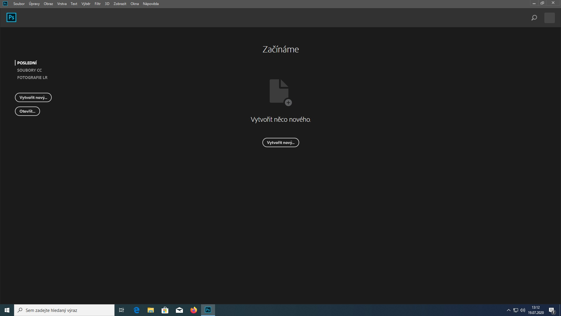 printscreen photoshop cc 2018